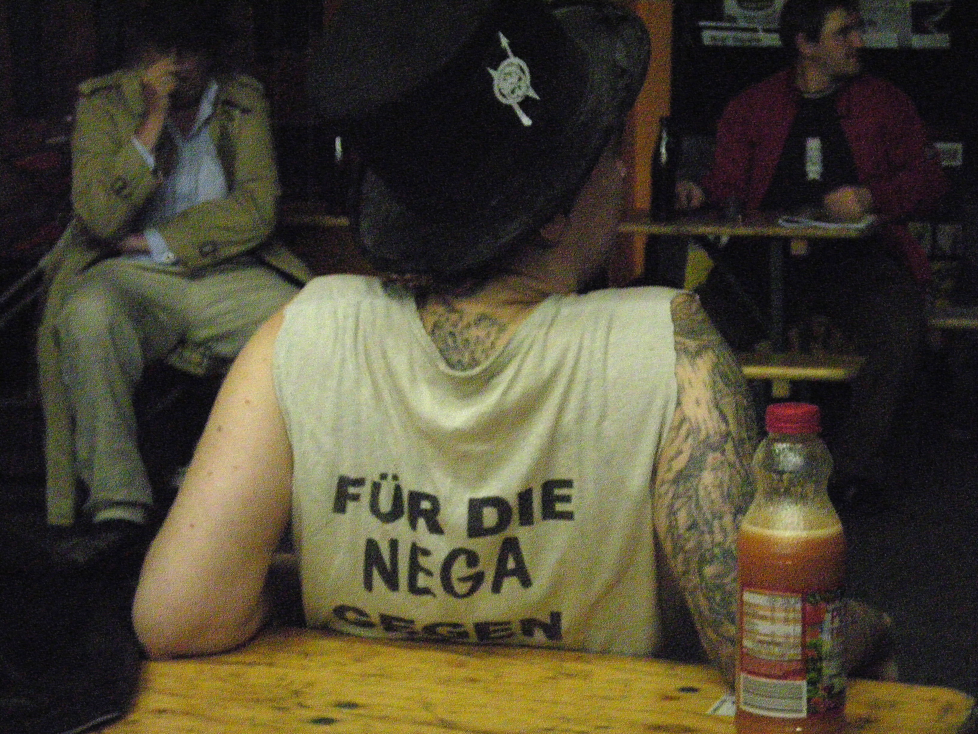 Punk_in_Vienna retrospective exhibit, opened on 2010-09-13, in Vienna, Austria.